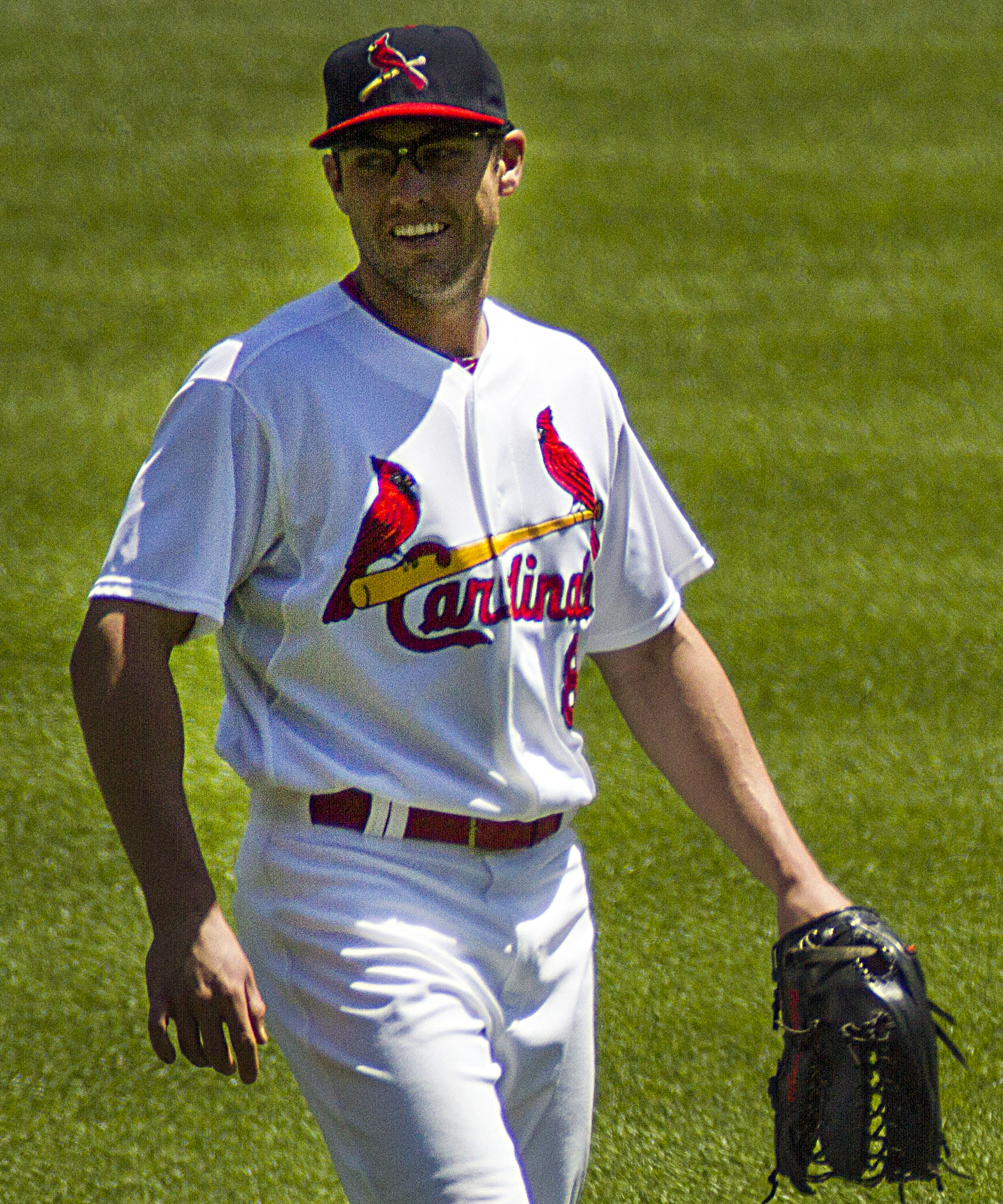 Peter Bourjos St.Louis Cardinals.